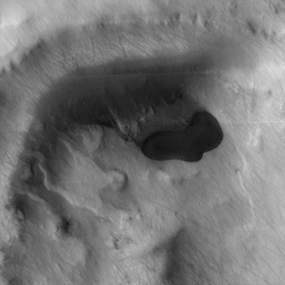 A structure that resembles a lake located in the center of this crater of the Southern hemisphere of Mars.(Part resized to Wikipedia)